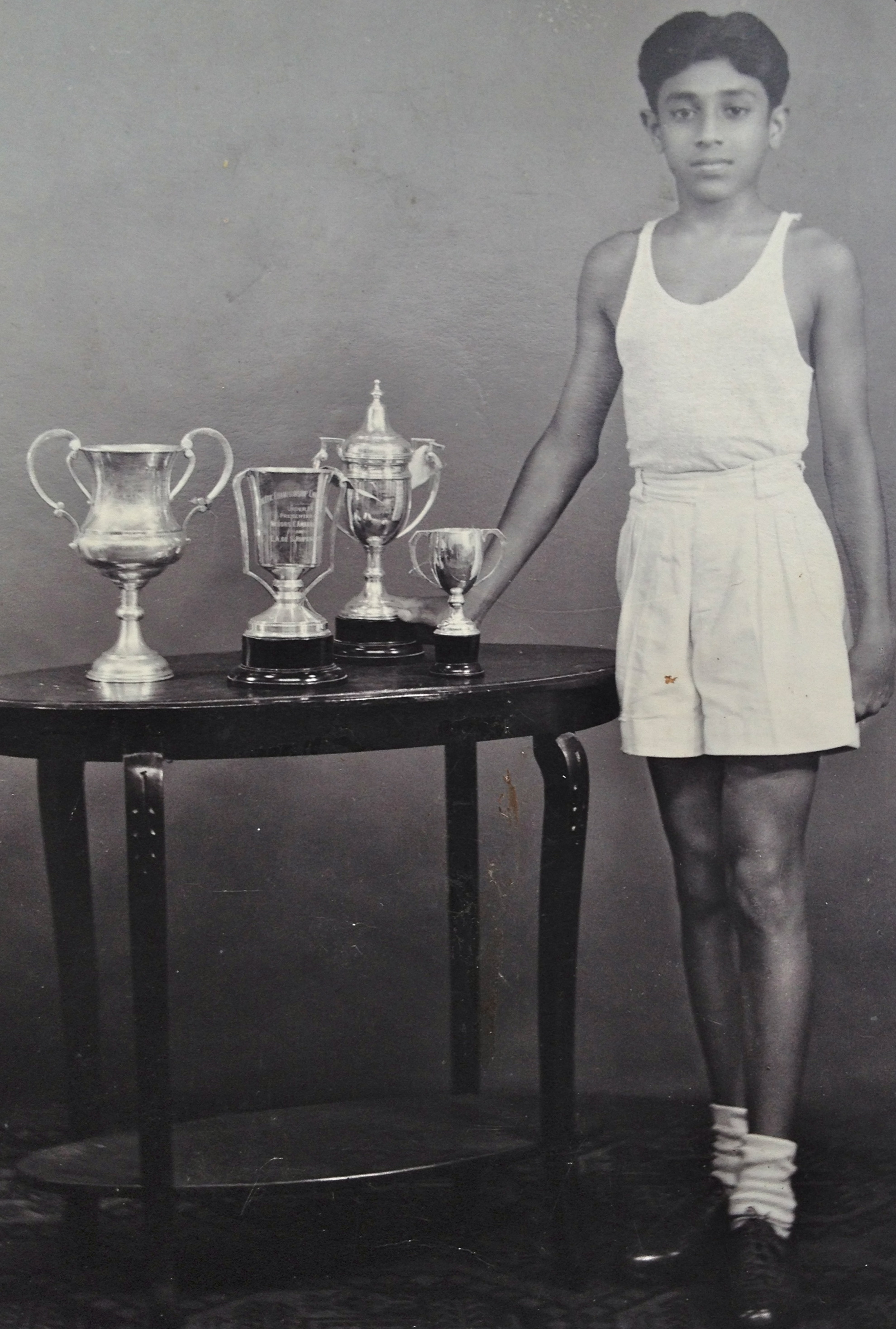 Premil Ratnayake as a school boy next to his Trophies.